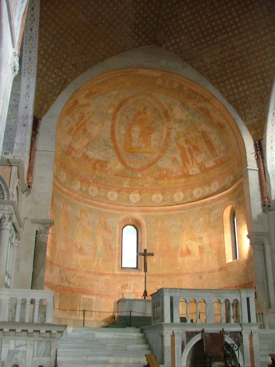 Interior of the Patriarchal Basilica of Aquileia as seen from the foot of the pulpit.